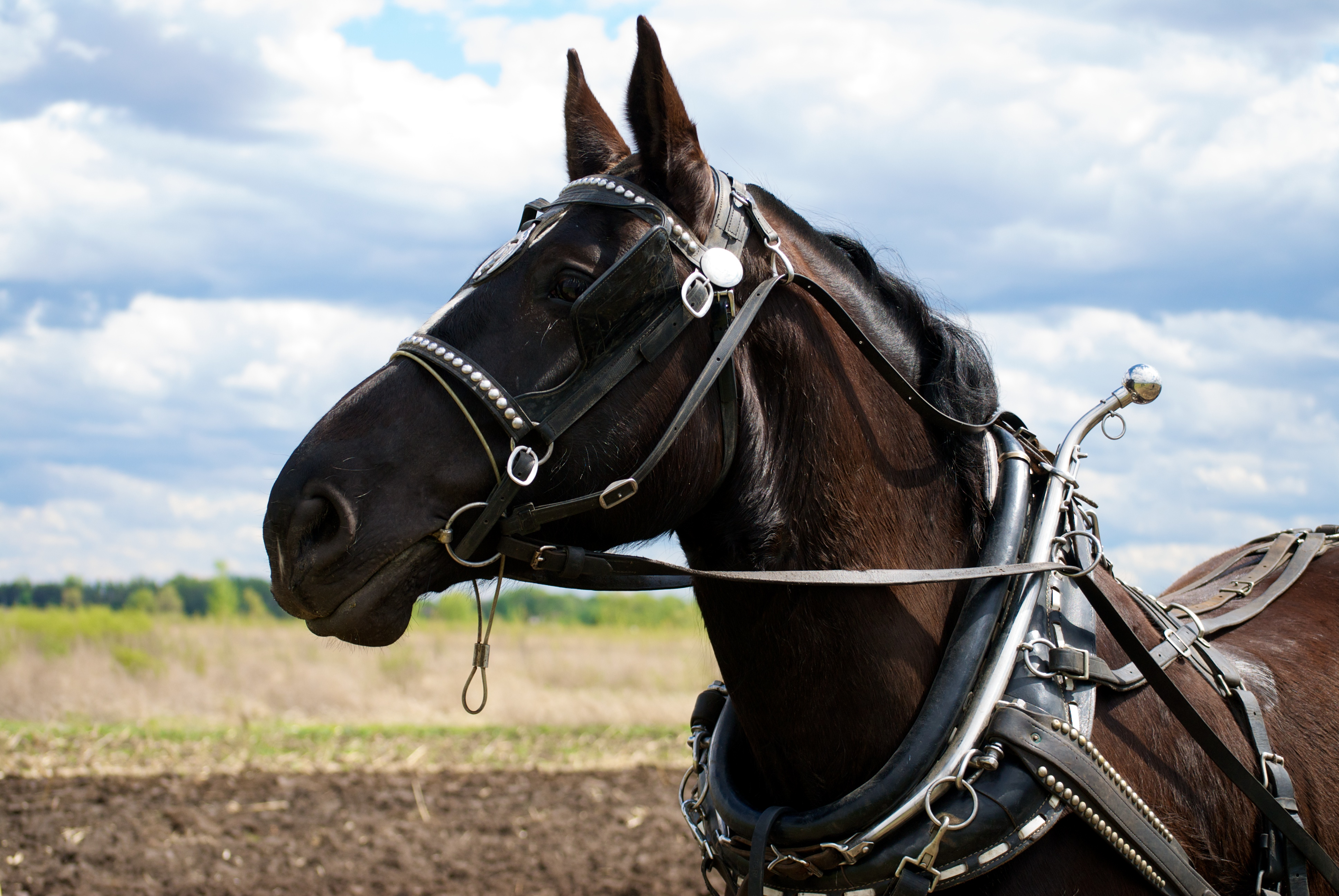 The Prairie Home Carriage Festival at Dakota City Heritage Village in Farmington, MN, 04/2010. One of the events going was a demonstration of plowing using driving horse. The gentlemen doing the demonstration had three very well trained Percheron horses hitched in a "Unicorn Hitch", meaning there was one in front and two behind him. This was the lead, or "unicorn" horse in the hitch.